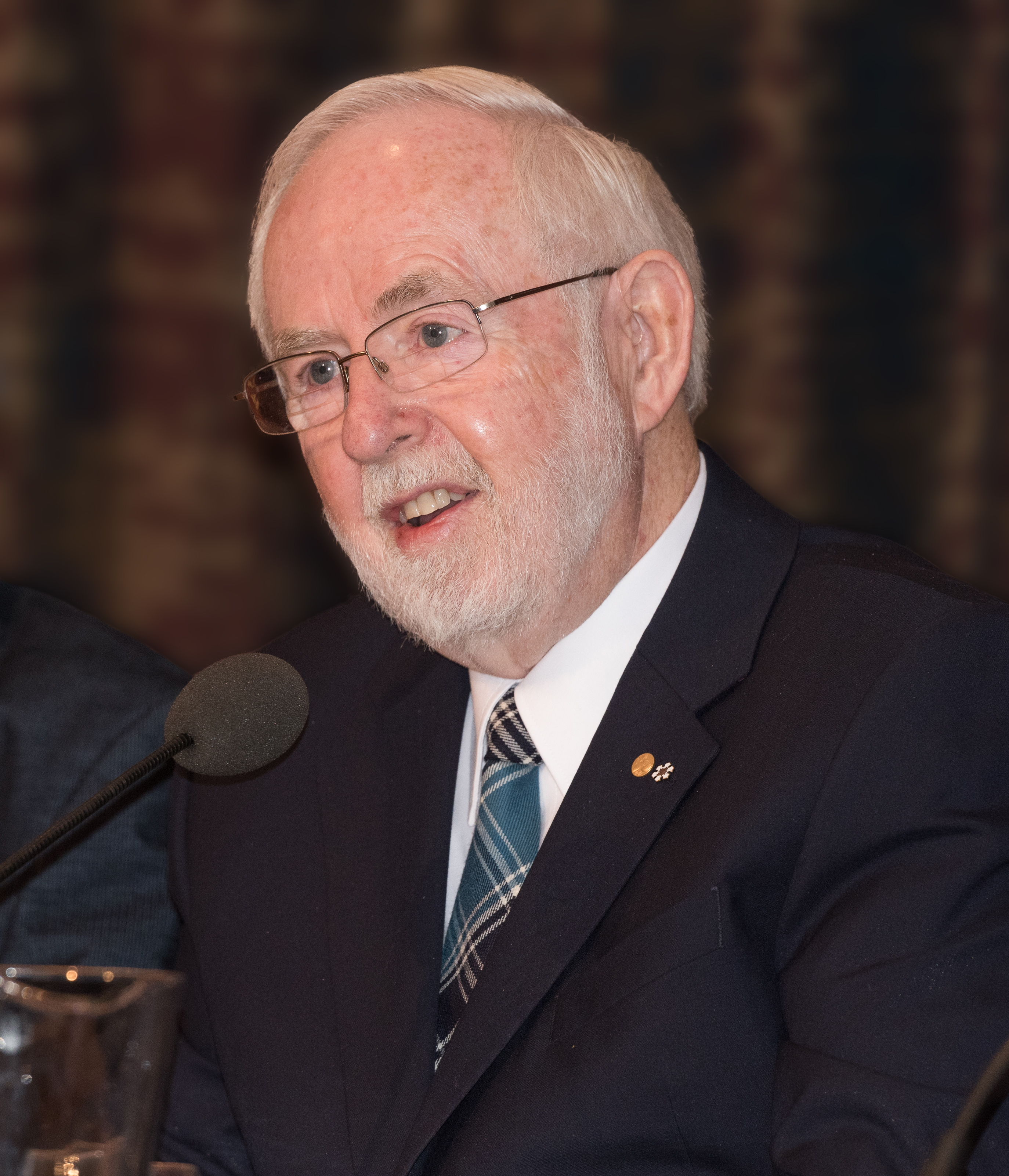 Arthur B. McDonald, Nobel Laureate in physics in Stockholm December 2015